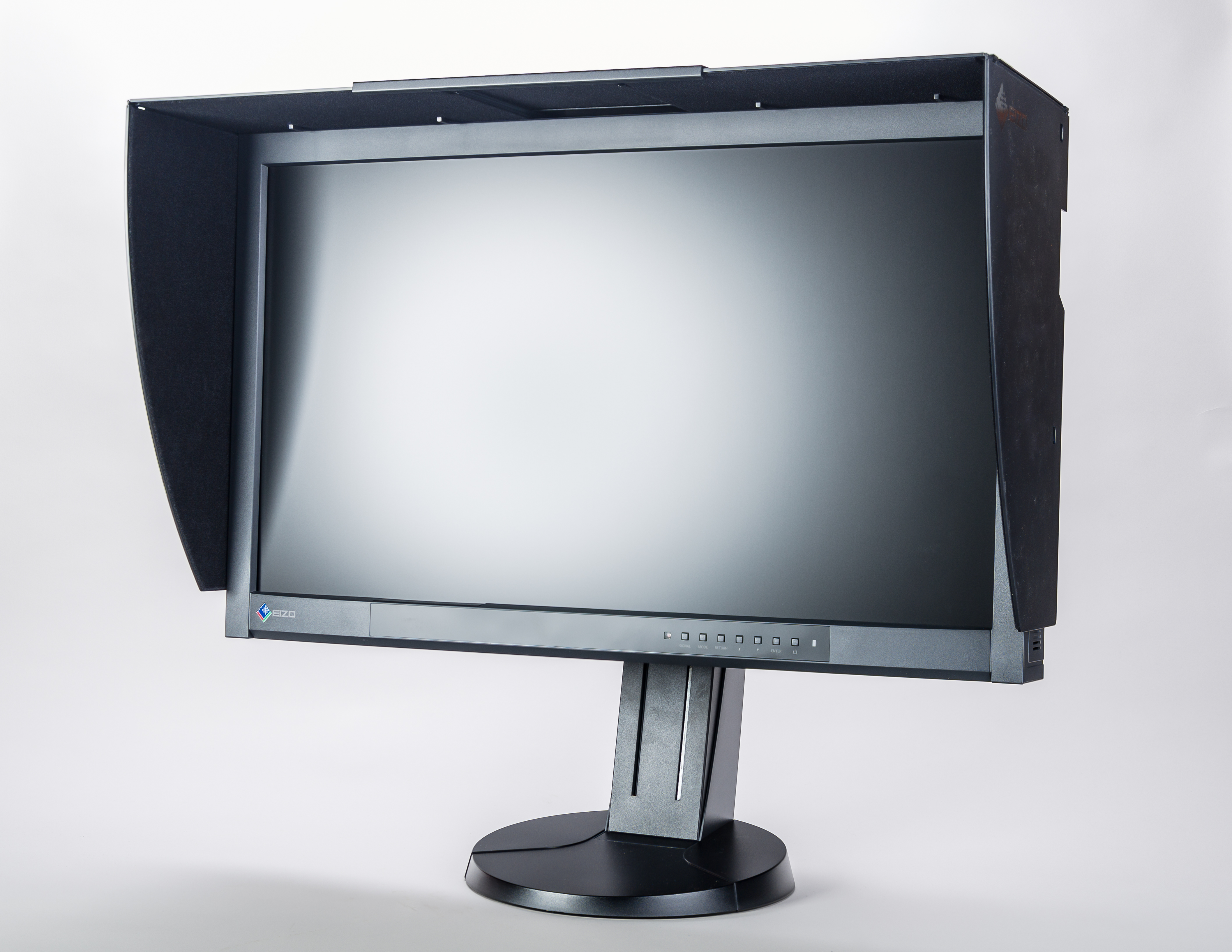 Germany: Monitor Eizo CG277-BK 27"Focus stacking of 4 pictures.